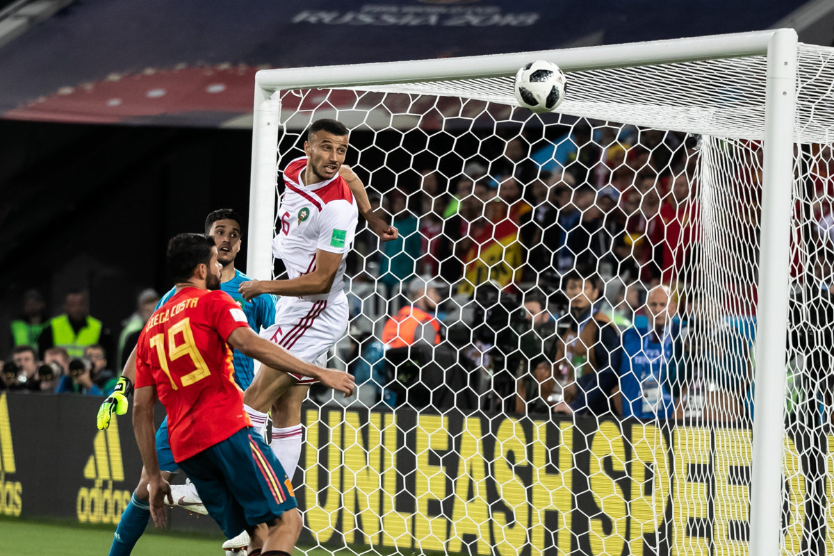 Spain-Morocco match, Group B, 2018 FIFA World Cup